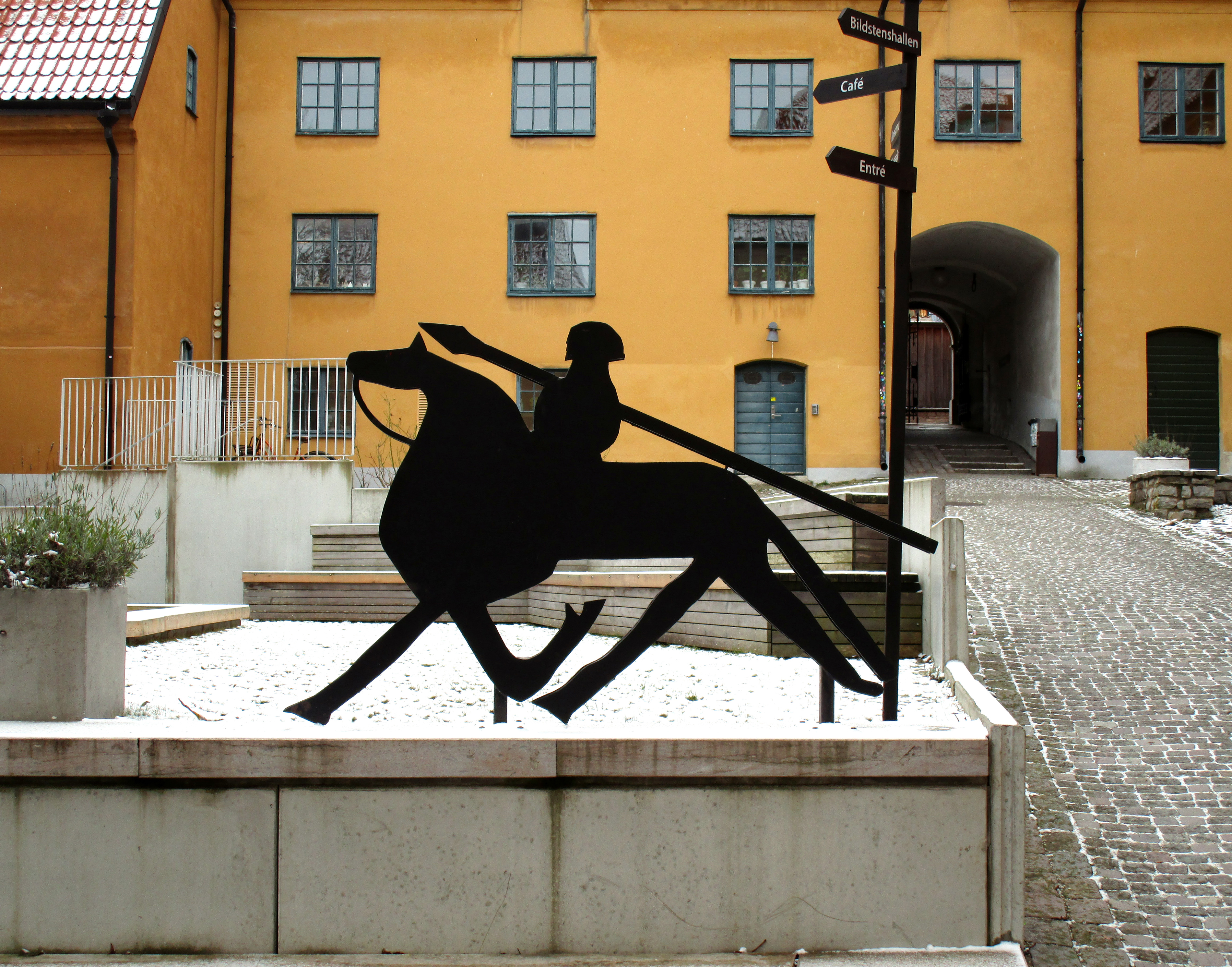 Gotland Museum, the Fornsalen, logo + inner yard